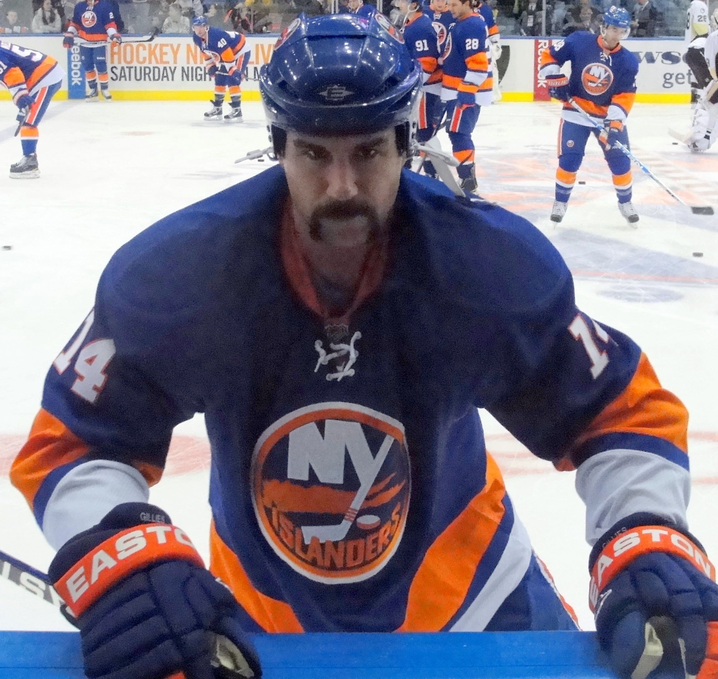 New York Islanders forward Trevor Gillies warms up near the bench before the February 11, 2011 "Brawl on Long Island" game against the Pittsburgh Penguins at Nassau Veterans Memorial Coliseum in Uniondale, NY.